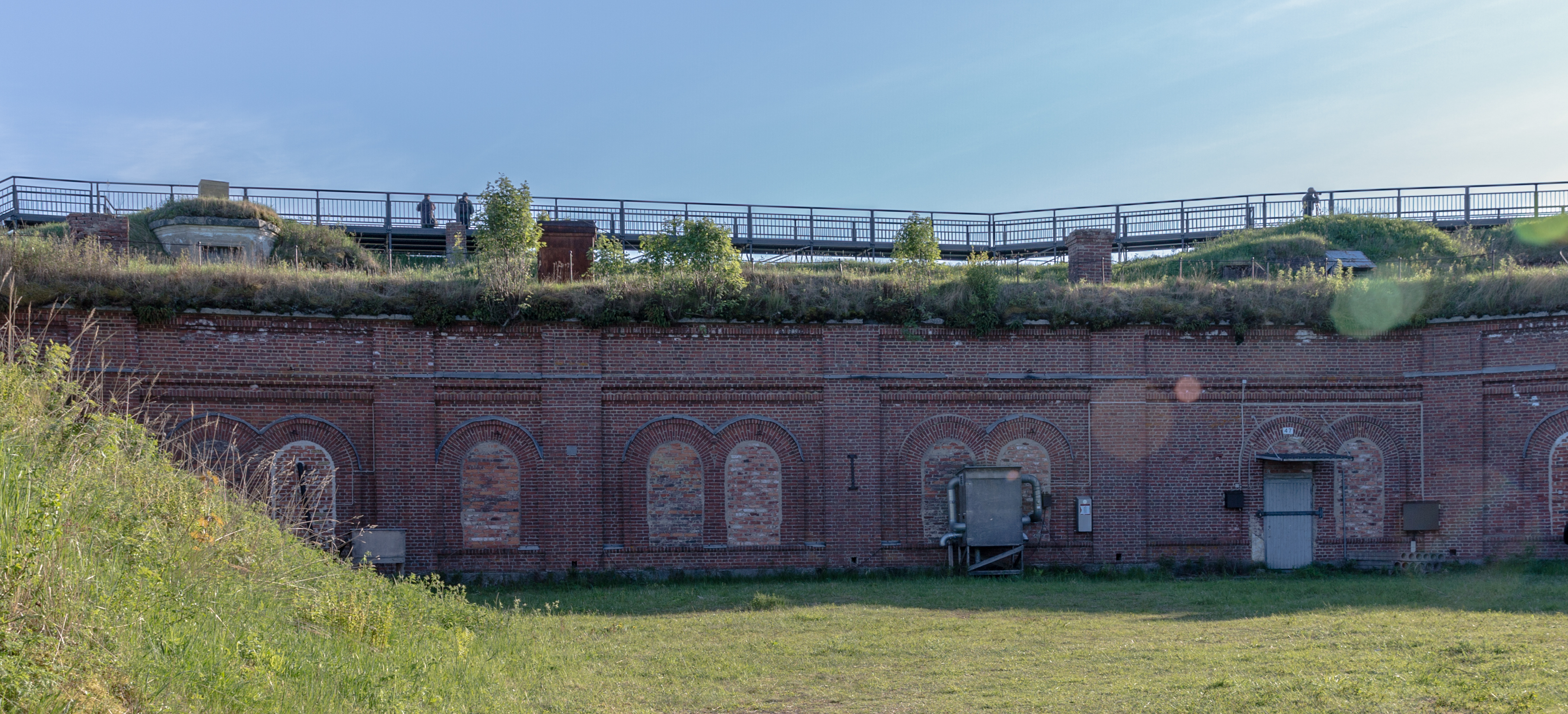 Alexander Battery in Vallisaari